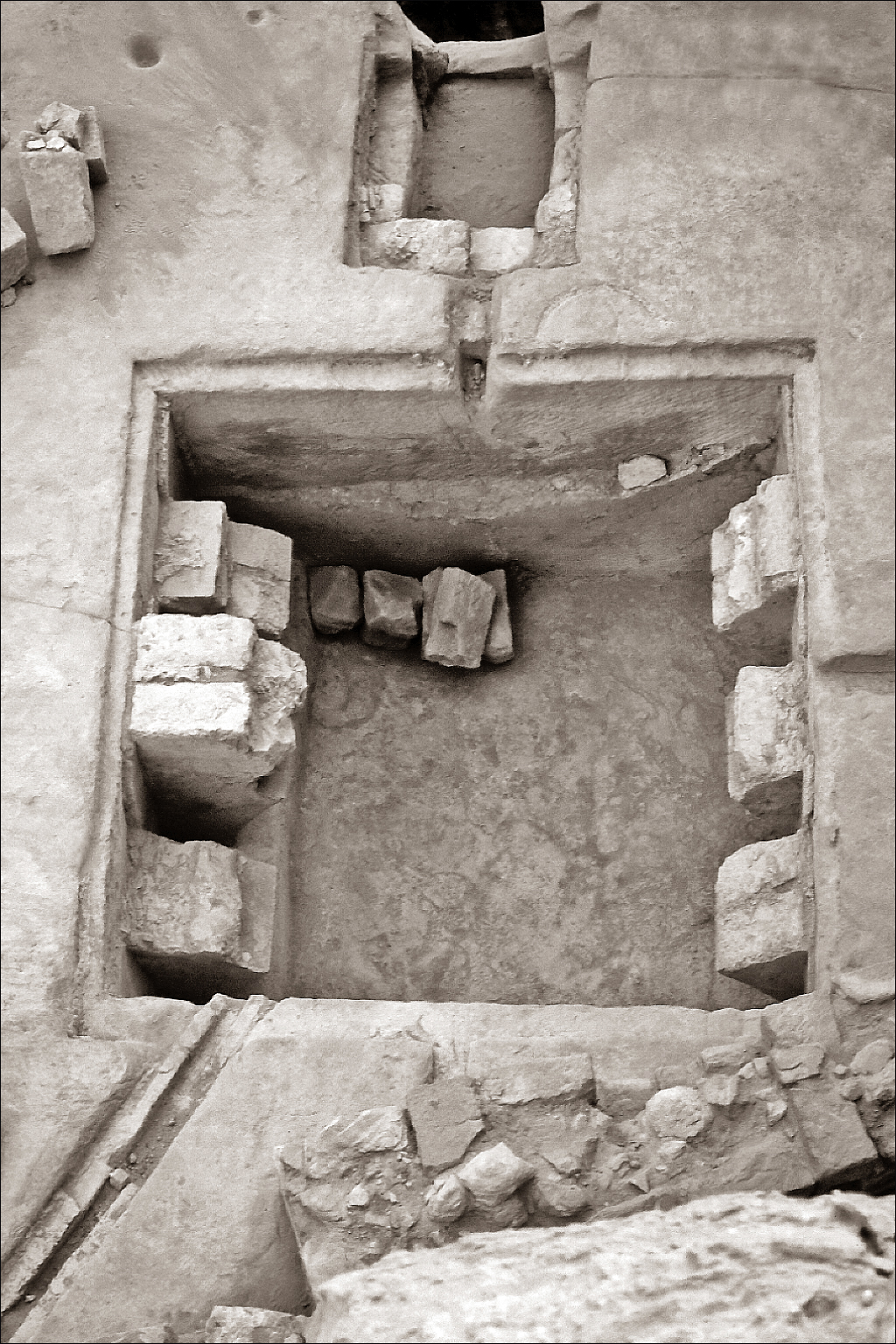 Petra. Castellum divisorium on the Wadi Farasa.